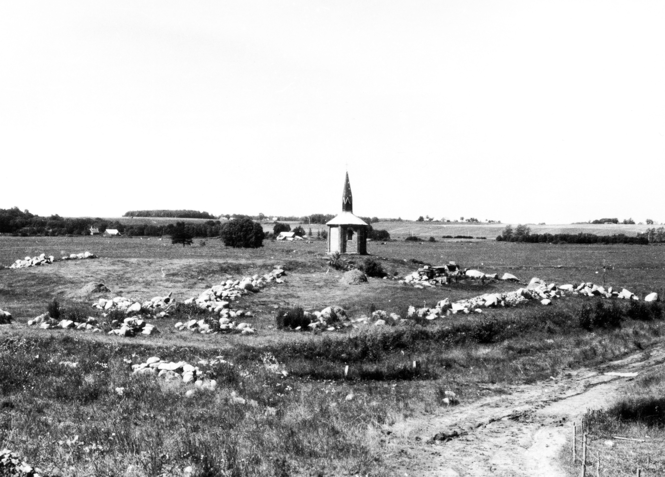 Žvainiai, Kretinga district, LithuaniaLietuvių: Gaidžio kalnas, Žvainių k., Kretingos rajonas, Lietuva